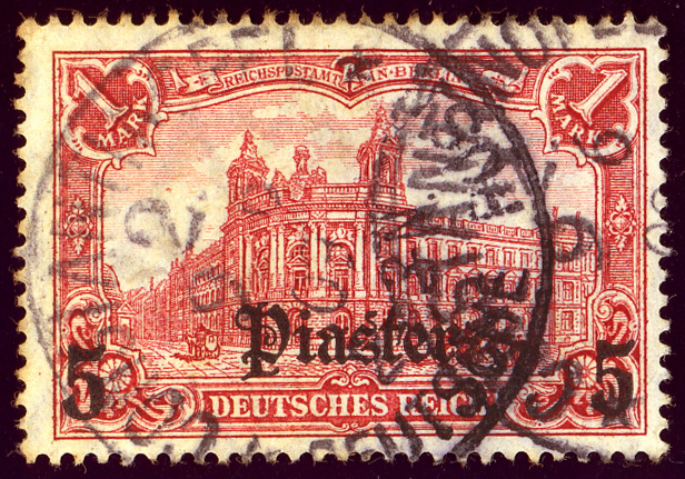 German stamp for the Ottoman Empire, overprint 5 Piaster, cancelled CONSTANTINOPEL 2 D.P. issue 1907. Michel N°44 karminrot.